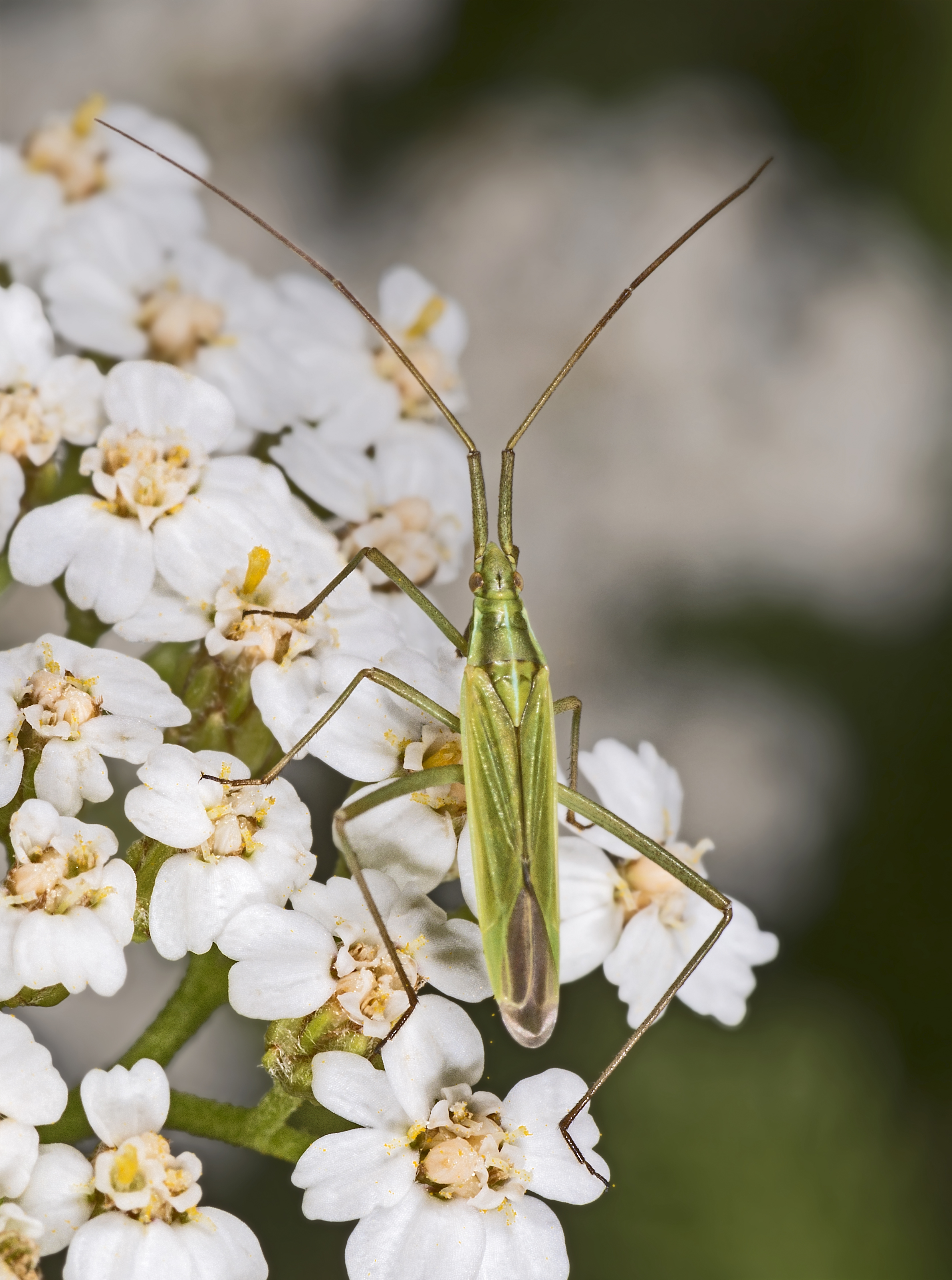 Megaloceroea recticornis on Achillea millefolium flowers; Size 1 cm